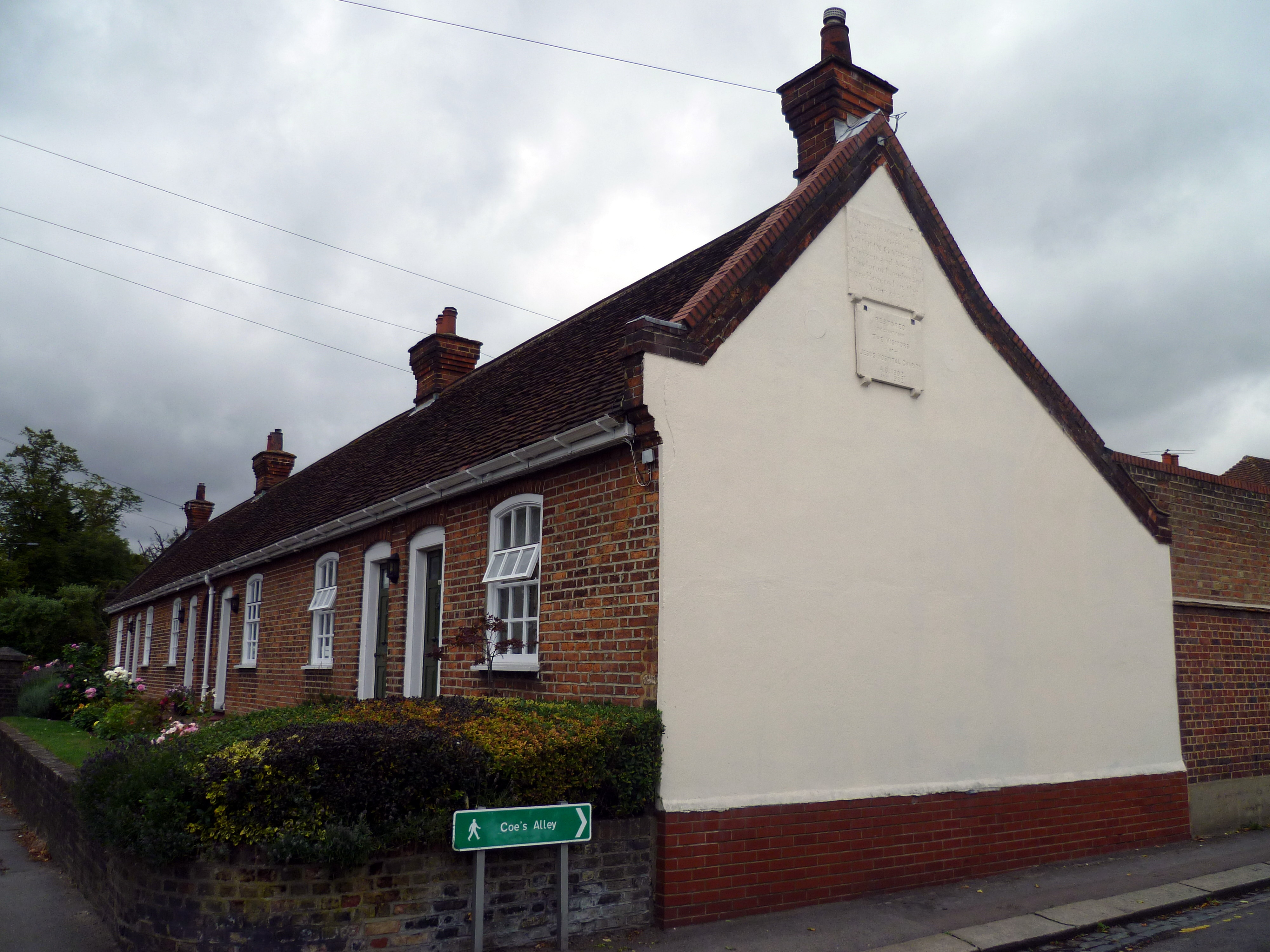 Garretts Almshouses, Chipping Barnet